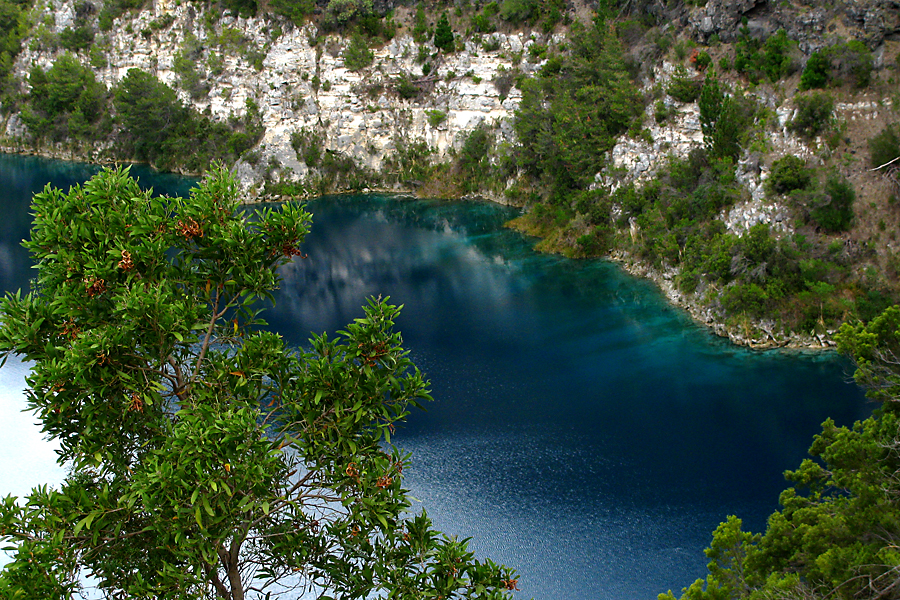 The water colour of Blue Lake (South Australia)